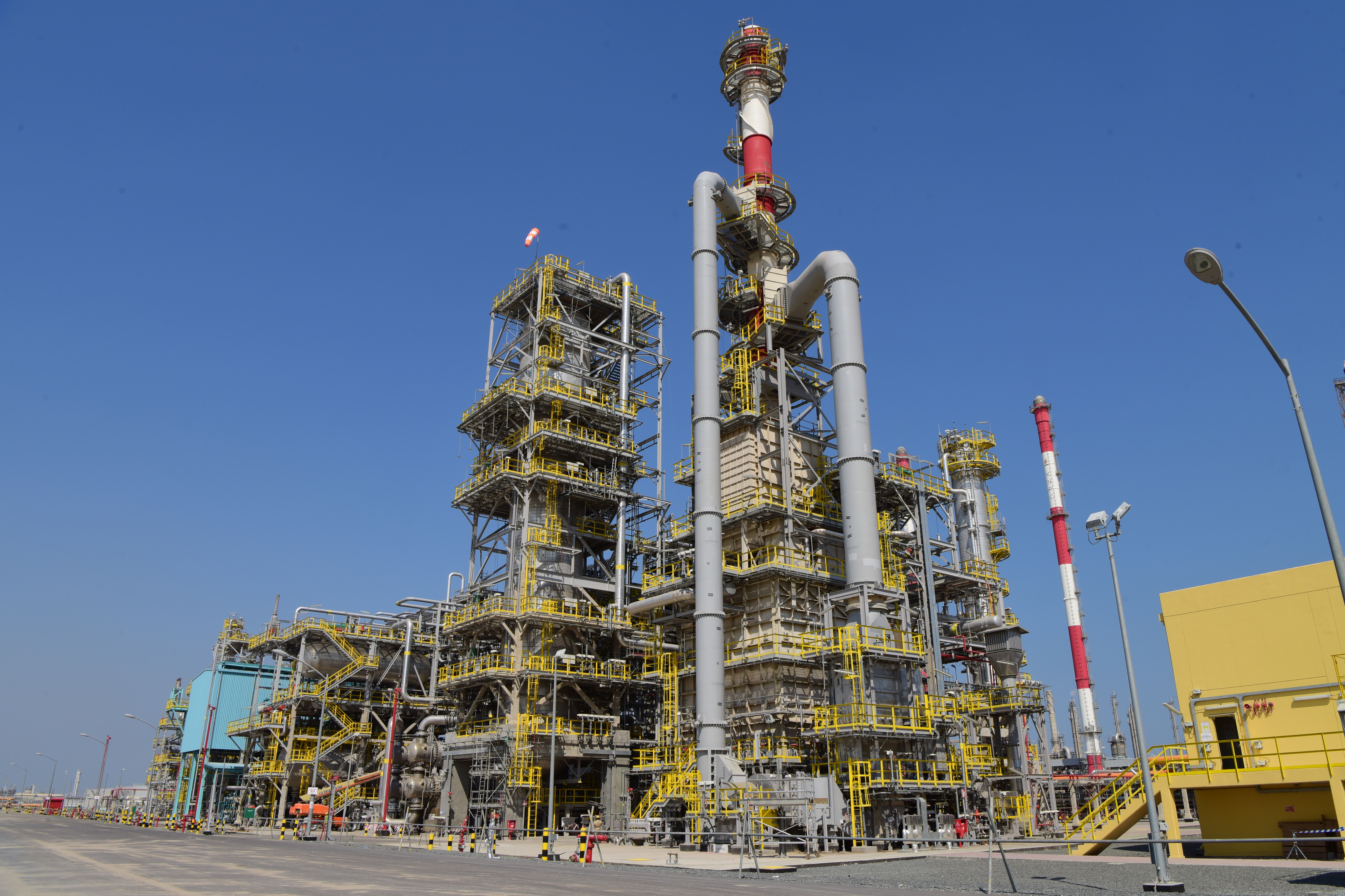 diesel production unit - U-216